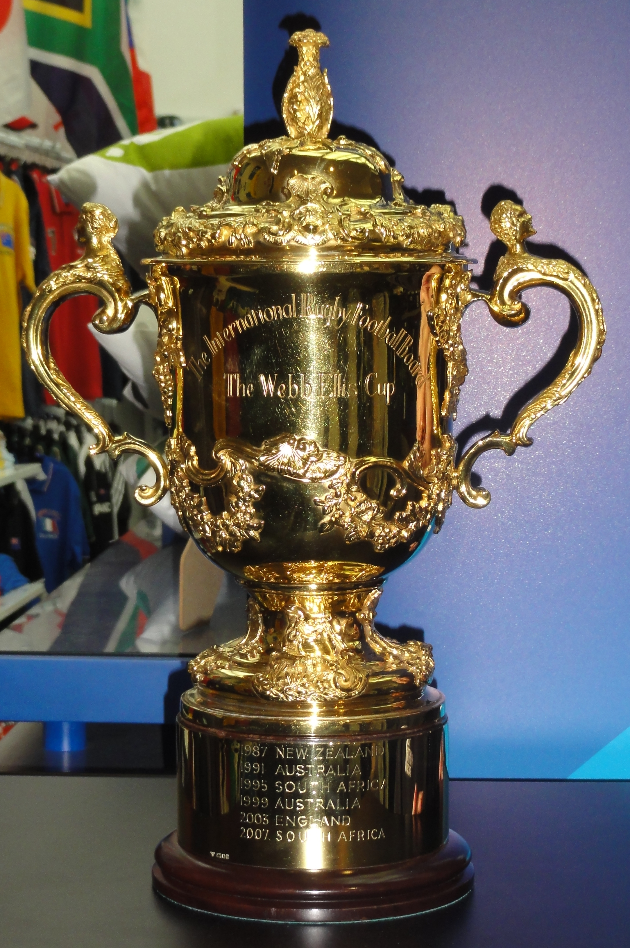 Webb Ellis Cup, the trophy awarded to the winner of the Rugby World Cup.